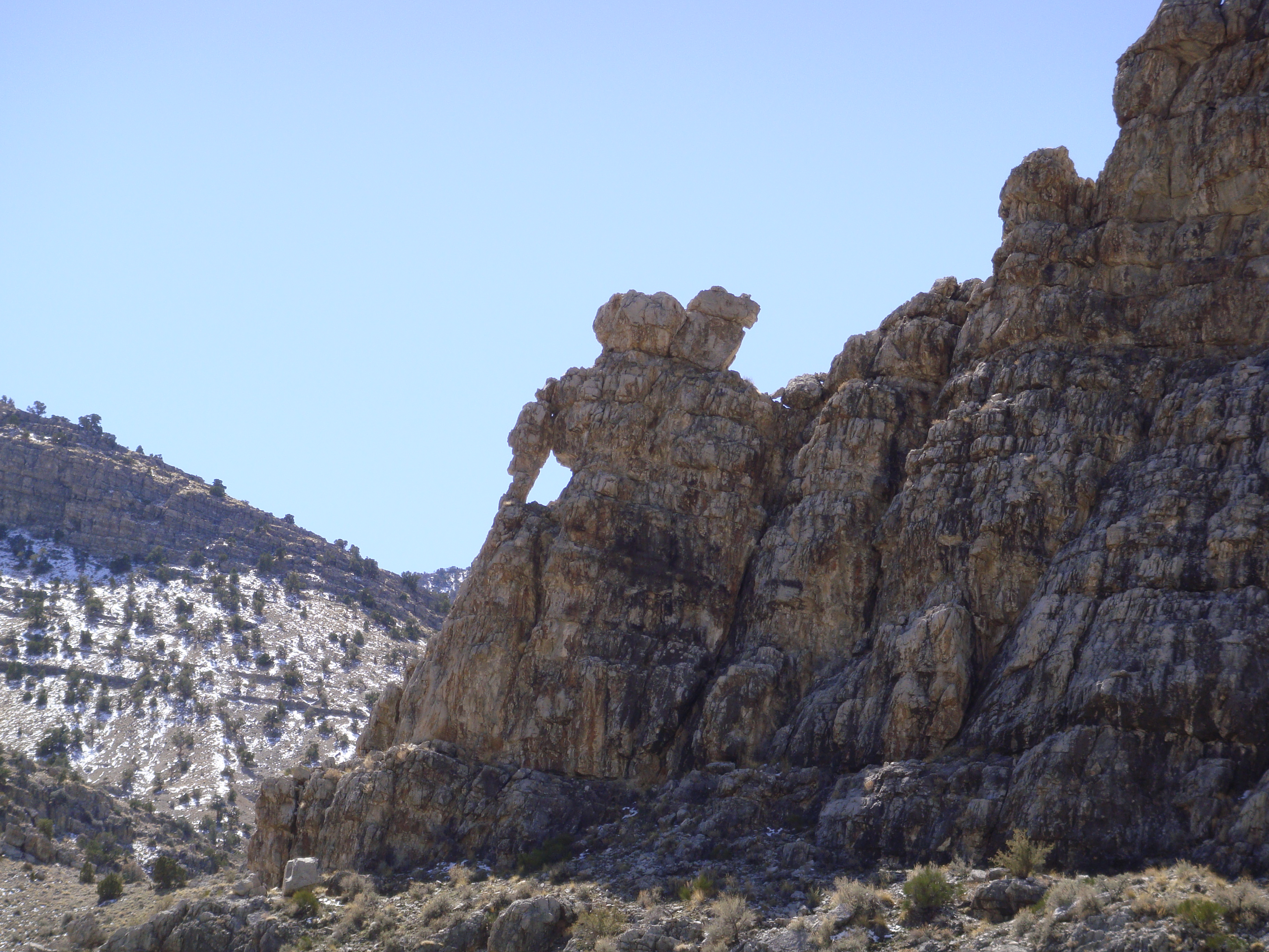 Elephant Rock, a rock formation composed of Silurian to Devonian carbonate rocks, is found along US Highway 6/US Highway 50 in Millard County, Utah.(from Kings Canyon (Utah) in the Confusion Range)